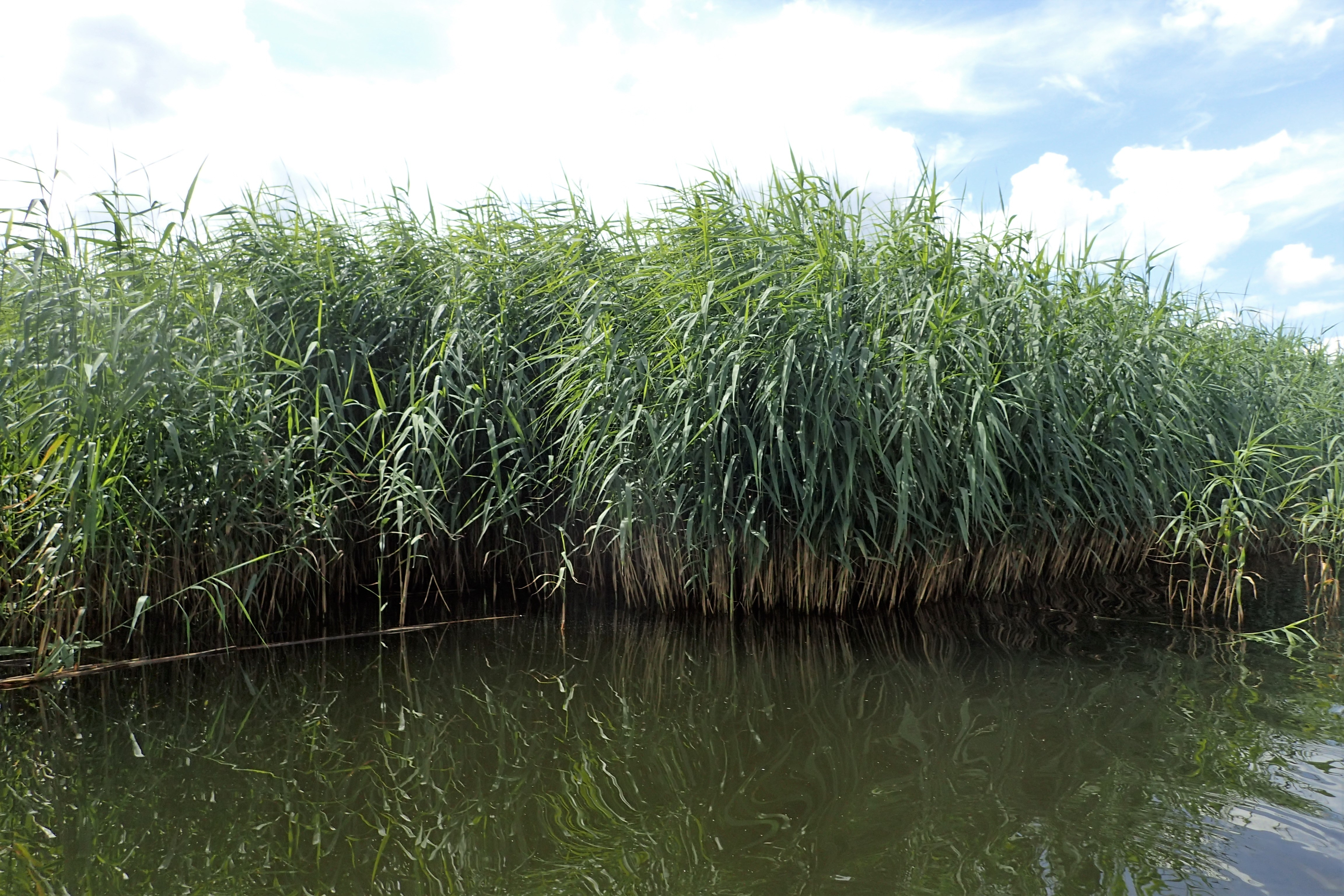 Phragmites reedbeds in lower Oder river valley near Szczecin, NW Poland